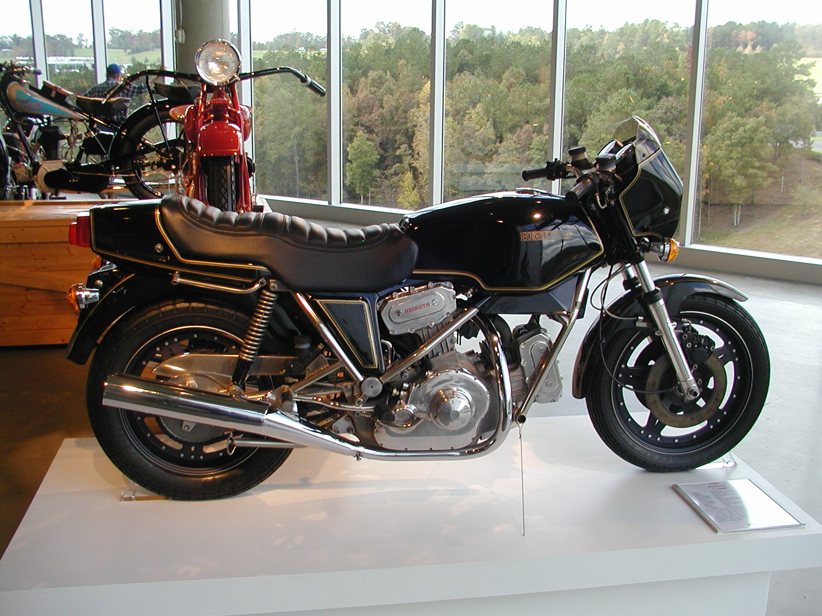 Barber Motorcycle Museum - Oct 22 2006 (565) 1982 Hesketh V1000 / More description is here